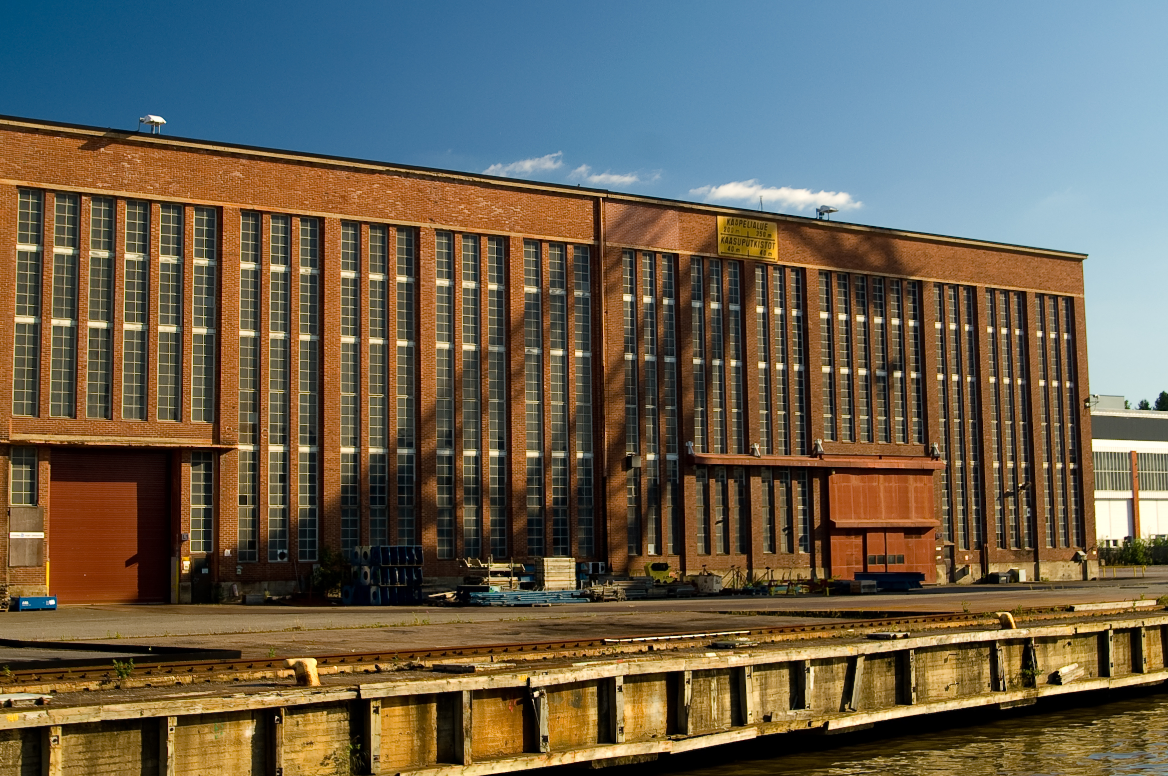 Wärtsilä diesel engine factory in Turku, Finland